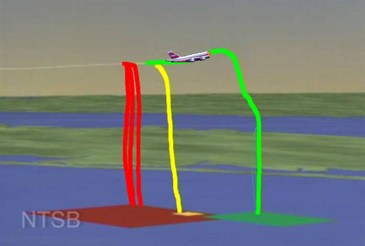 Image indicating the trajectory of the pieces of the aircraft as it disintegrated. Image from NTSB final report of TWA 800 accident, AAR 00/03, available online at